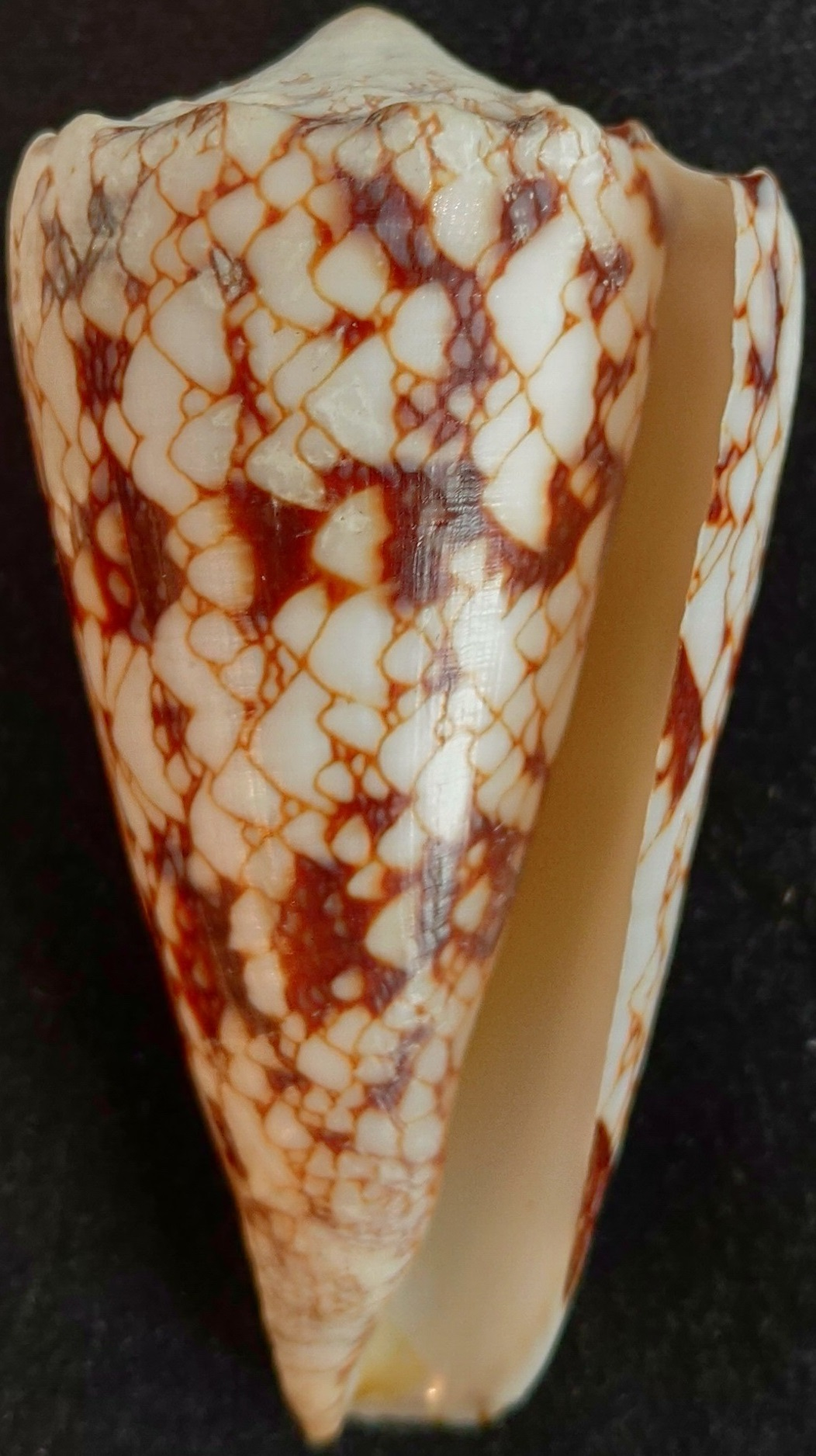 Conus Araneosus Nicobaricus Front